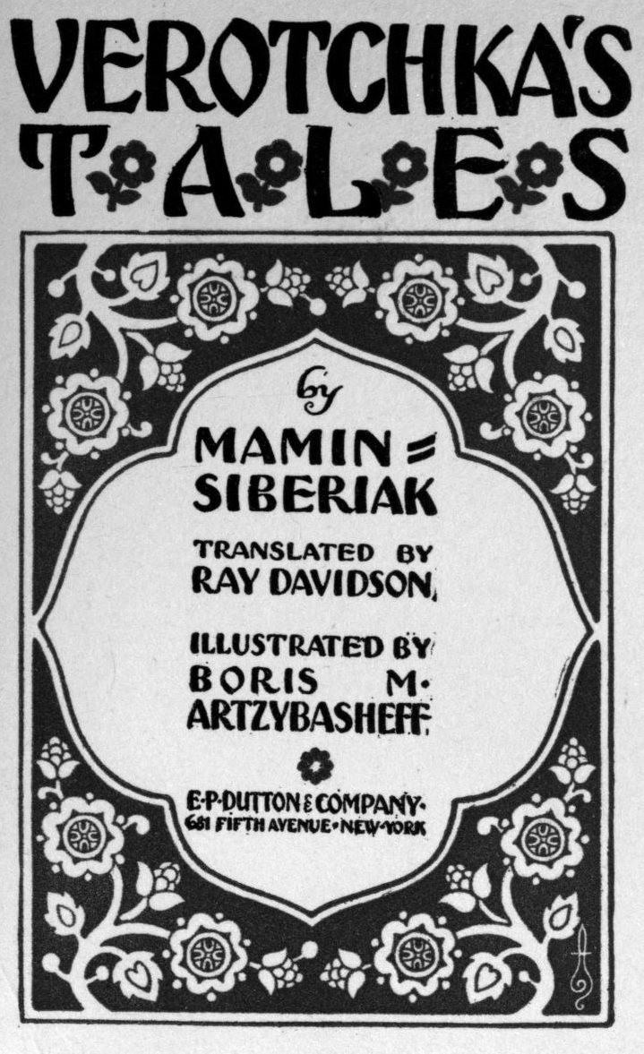 Title page to 1922